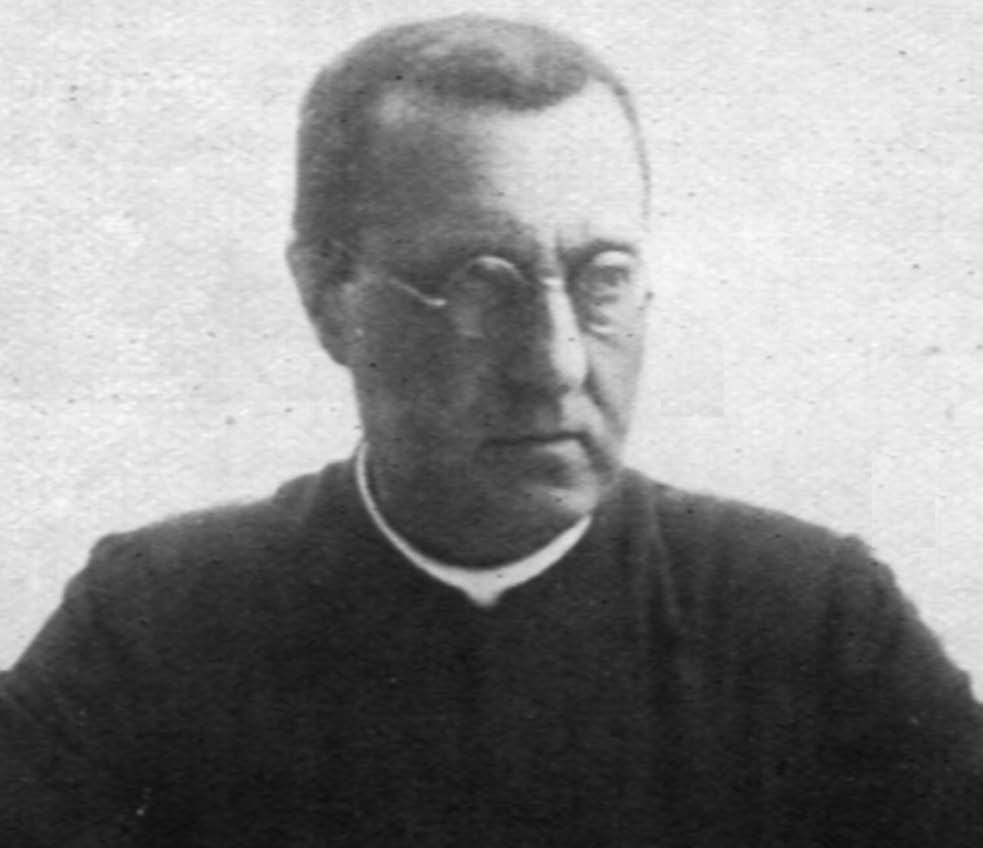 Father Theodor Wulf in 1910